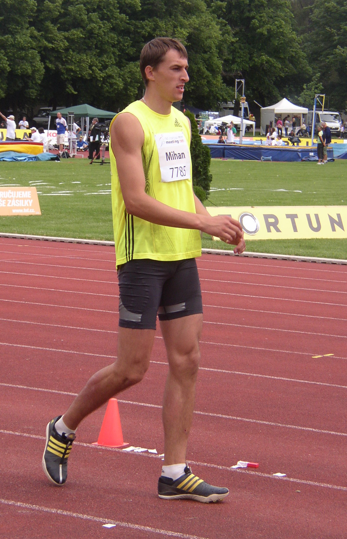 Athlete Eduard Mikhan of Belarus prepares for his attempt in long jump during men's decathlon at 4th edition of the TNT - Fortuna Meeting (IAAF World Combined Events Challenge Meeting, Sletiště Stadium, Kladno, Czech Republic, 15 June 2010, 13:06). The Belarussian left Kladno with mixed emotions - having had his personal best in decathlon improved by 214 points but narrowly missing the 8000 mark by one single point...